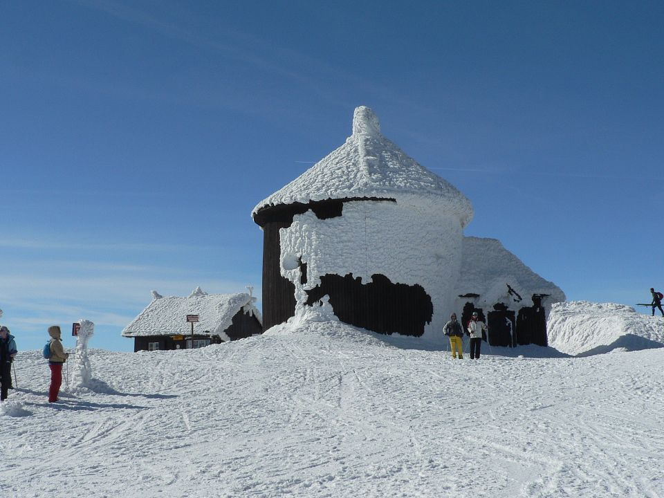 Sněžka/Śnieżka (Snow Mountain), Giant Mountains. St. Lawrence chapel (Poland) and Czech post office (Czech Republic, on the left).